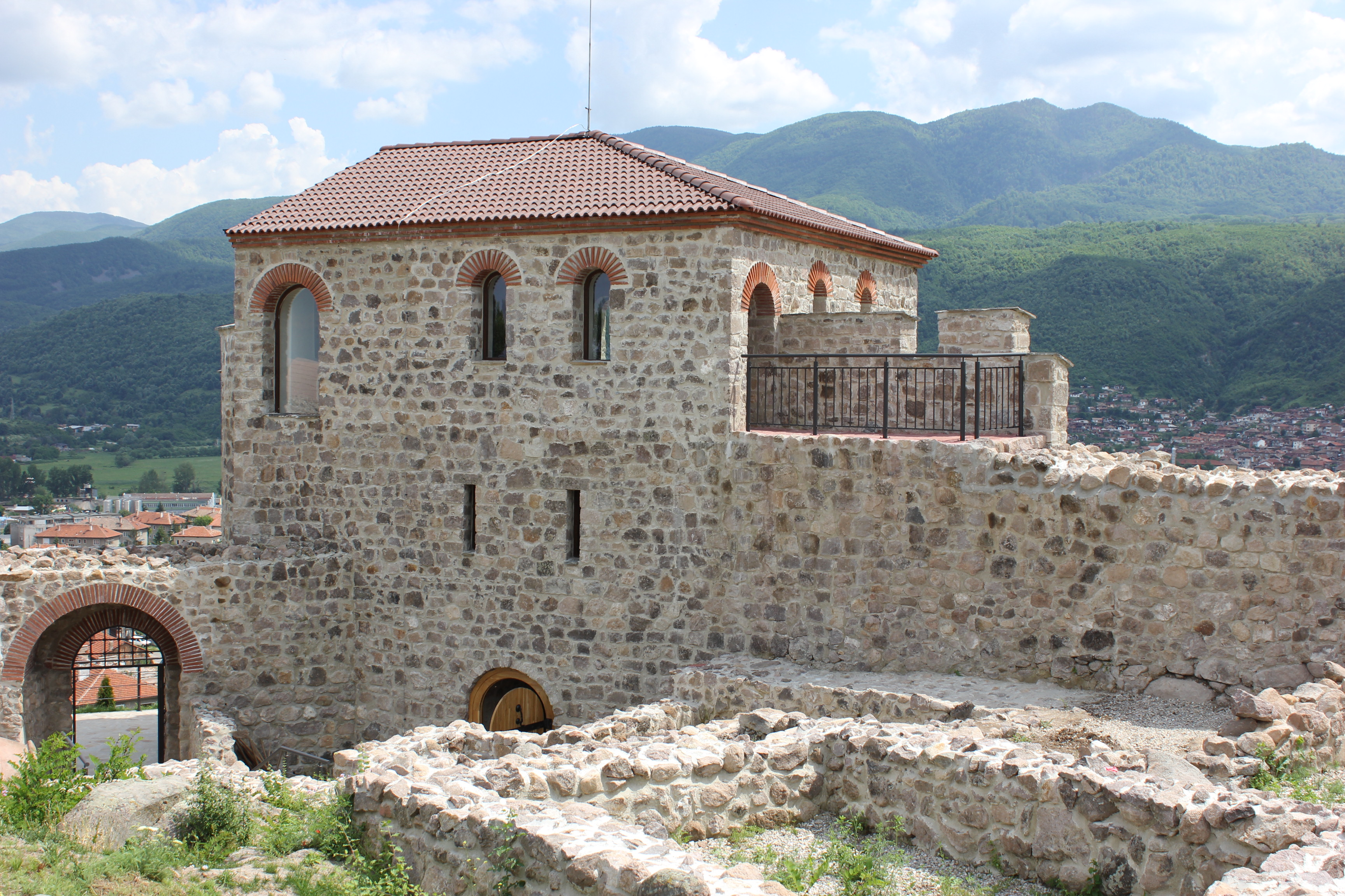 Southeast church-tower (photographed from the north) from Fortress Peristera, Peshtera, Bulgaria.